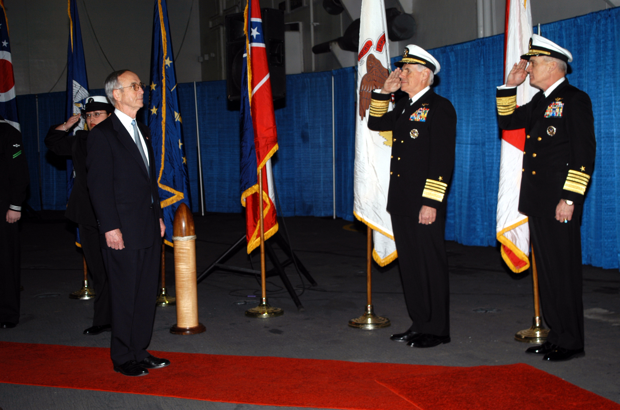 Naval Station Norfolk, Va. (Feb. 18, 2005) – Admiral John B. Nathman, far right, and Admiral William J. Fallon salute during honors arrival of Secretary of the Navy, Gordon R. England, during a change of command ceremony for Commander, Fleet Forces Command held aboard USS Theodore Roosevelt (CVN 71). Adm. Fallon relinquished command to Adm. Nathman, and is headed to Pacific Command, headquartered in Honolulu, Hawaii, where he will replace the retiring Adm. Thomas B. Fargo. U.S. Navy photo by Photographer’s Mate Airman Jonathan Hutto (RELEASED)